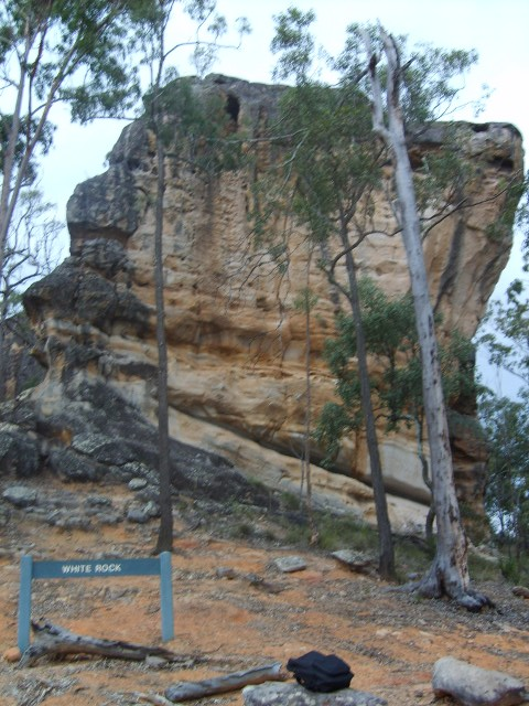 Photo showing the base of White Rock, a natural formation at the White Rock Conservation Park, Ipswich, QLD, Australia.